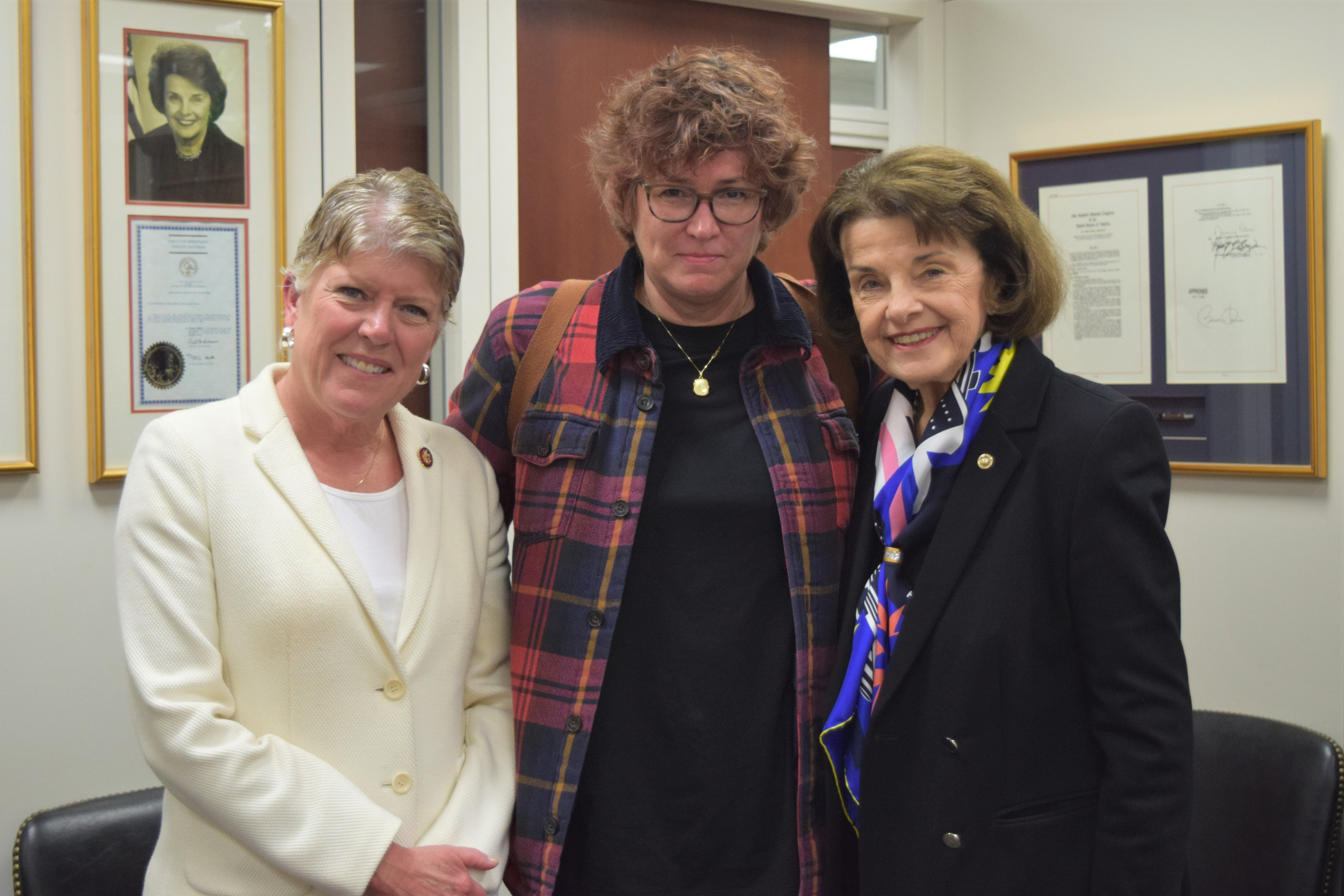 I want to thank @SenFeinstein for meeting with Susan and me to discuss the importance of finding common-sense bipartisan solutions to the gun violence epidemic.